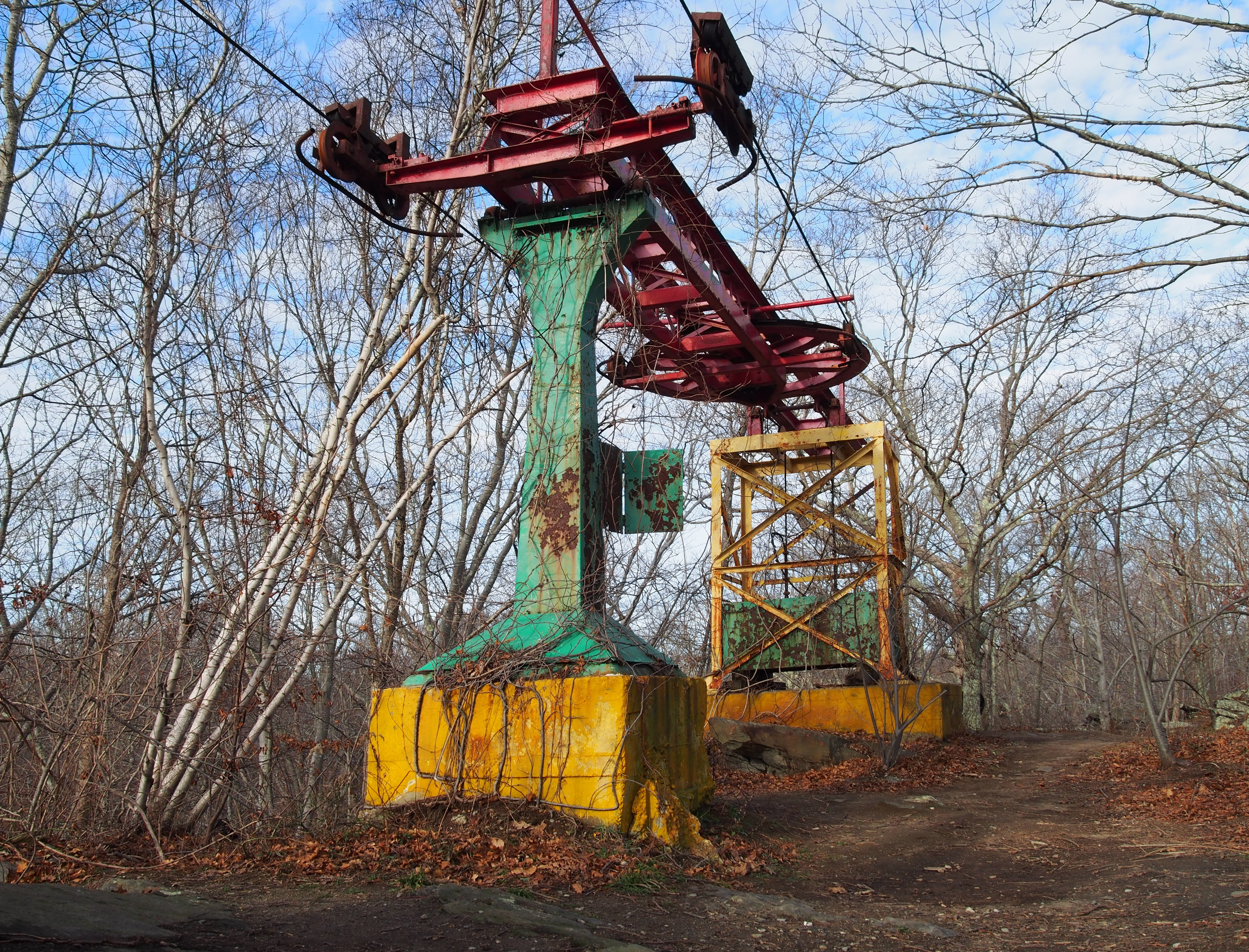 Remains of the Skyliner ride's upper turnaround, formerly part of Rocky Point Park in Warwick, Rhode Island. The amusement park closed in 1995 and has since been turned into Rocky Point State Park.